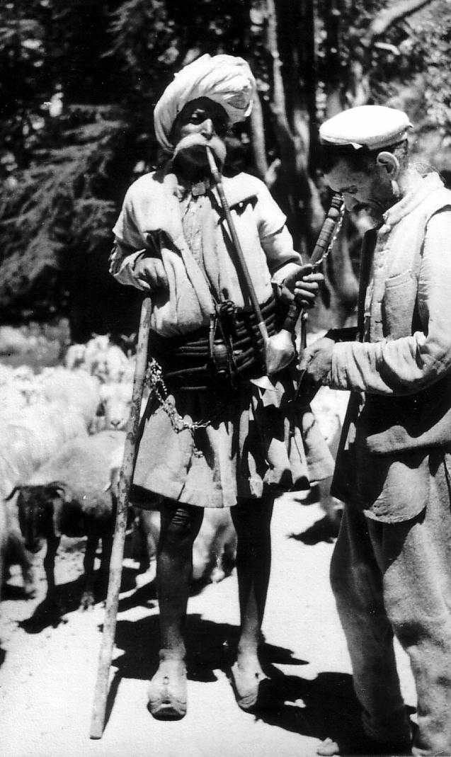 I took this photo in 1980 near Dharamsala.